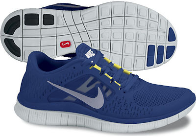 Picture of Nike Free+ 3 running shoe